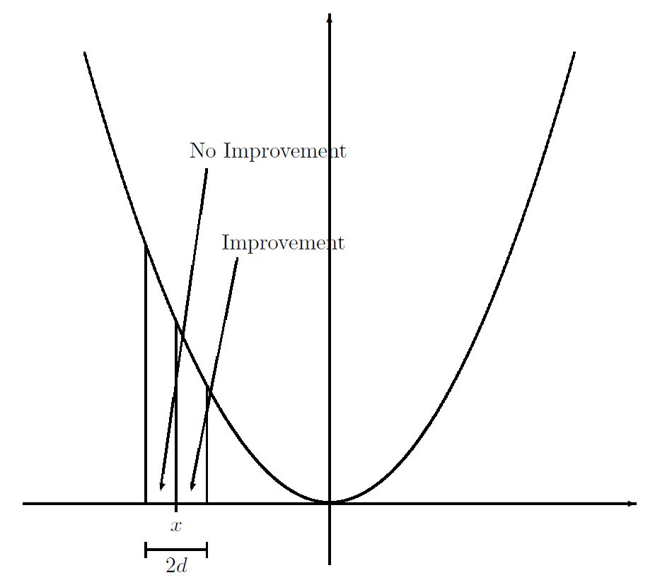 In optimization of a single-dimensional unimodal function by random sampling with a uniform distribution, when the current position x is far from the optimum the probability is 1/2 for finding an improvement.